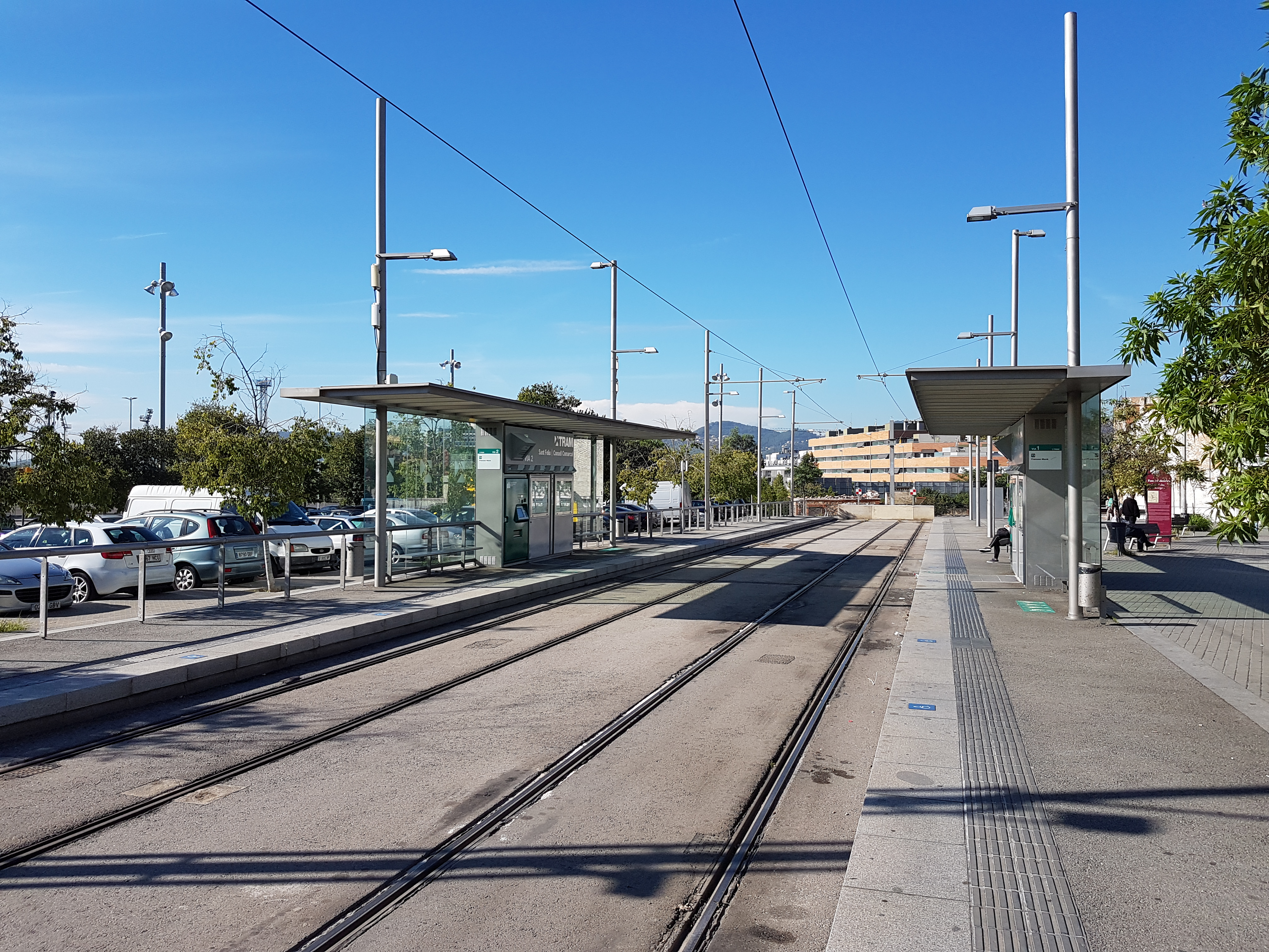 Estació de tramvia de Consell Comarcal a Sant Feliu de Llobregat